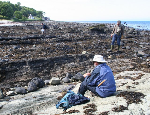 Waterloo The rock strata on the shore here have been tilted by tectonic movements, so that the dark mudstones laid down on top of the paler ones appear alongside one another. The foreground strata are Triassic, and beyond the old outfall pipe the presence of ammonite fossils marks the transition upwards into the Jurassic.